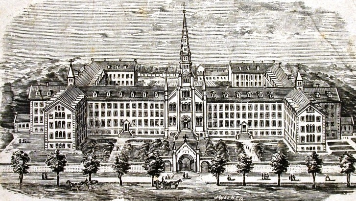 Engraving, Grey Nuns nunnery, Montreal, John Henry Walker (1831-1899) 1850-1885, Ink on paper on supporting paper - Wood engraving - 5.9 x 9.6 cm